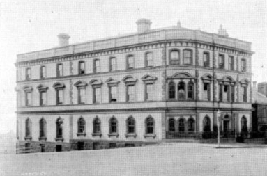 Photograph of The Northern Club Building from NZETC.